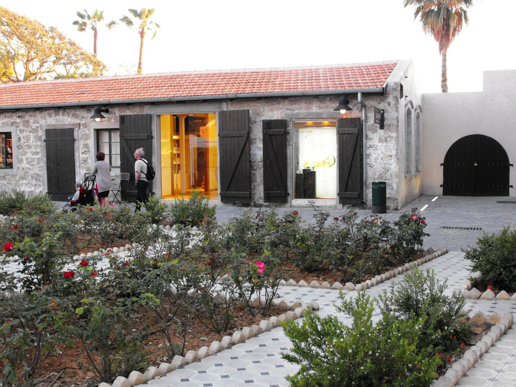 The old train staion in Tel-Aviv-Jaffa.